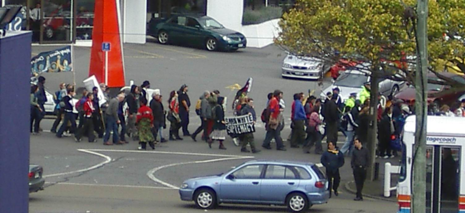 A self made photo of the foreshore & seabed hikoi marching through Kent Terrace in Wellington. I took the photo as the hikoi moved its way to Parliament.